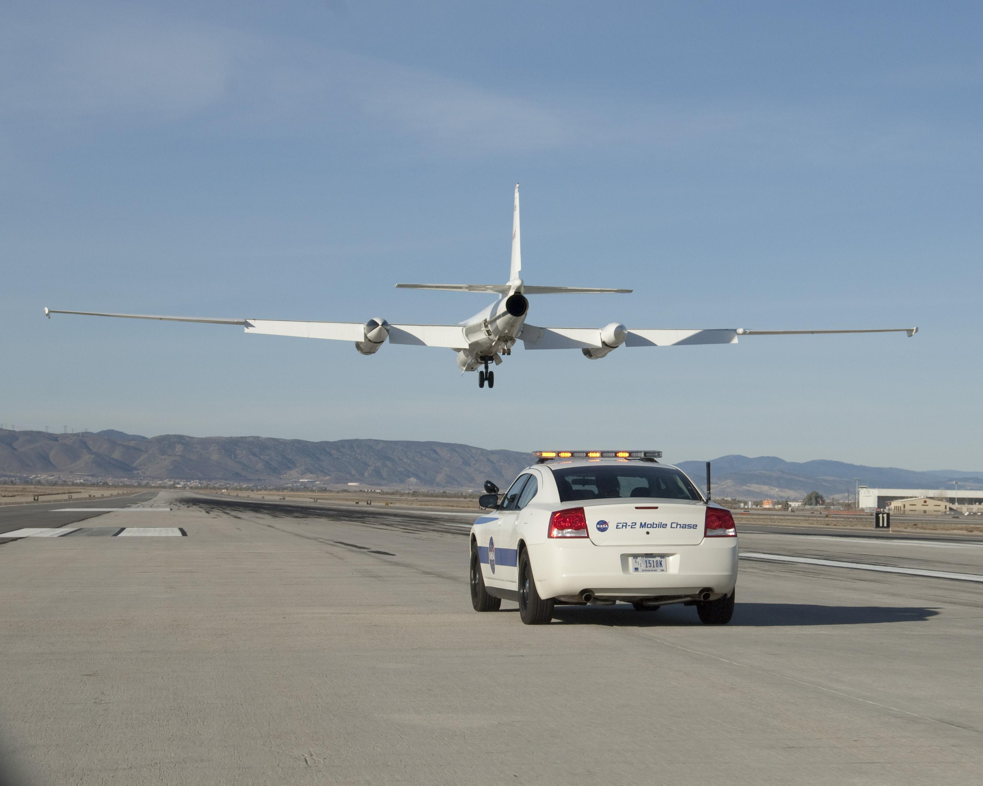 NASA's ER-2 high-altitude research aircraft was guided to a safe and smooth landing by voice commands radioed from an ER-2 mobile pilot driving a NASA Dodge Charger chase vehicle. The aircraft and its chase car are based at NASA's Dryden Aircraft Operations Facility in Palmdale, CA.